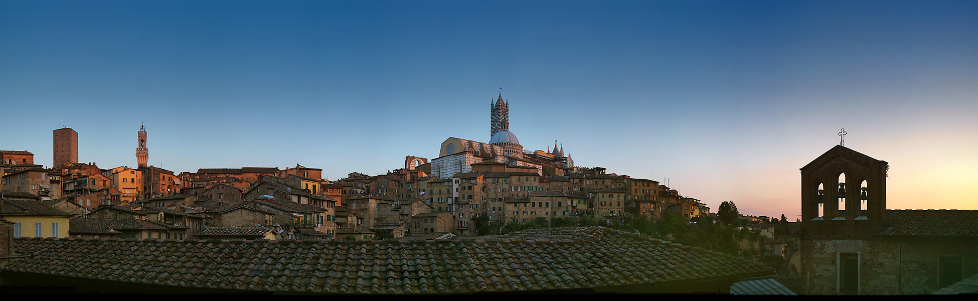 Siena, Tuscany, Italy.